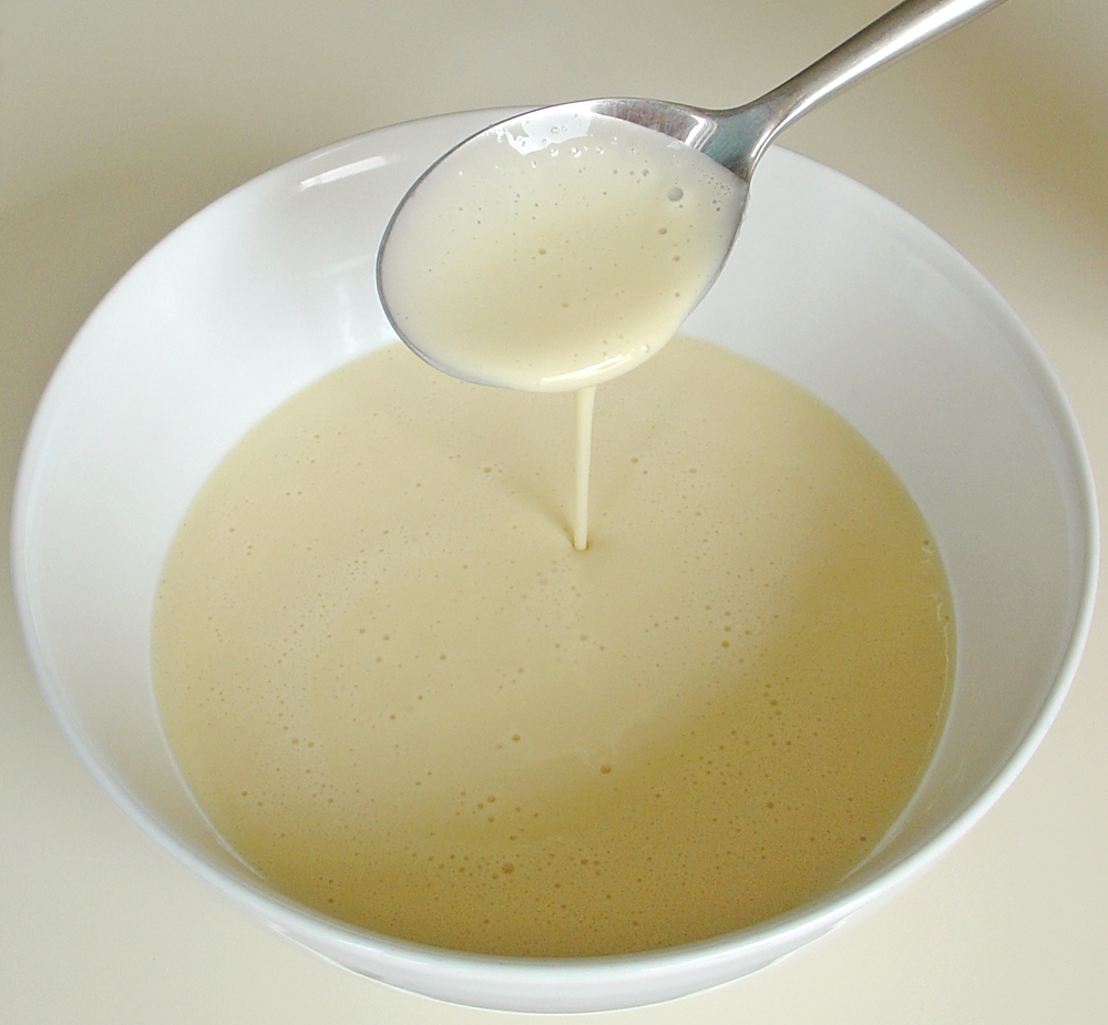 Thin pancake batter for English pancakes. Taken by Drywontonmee on 15th July 2007. For inclusion in the article 'Batter_(cooking)'.